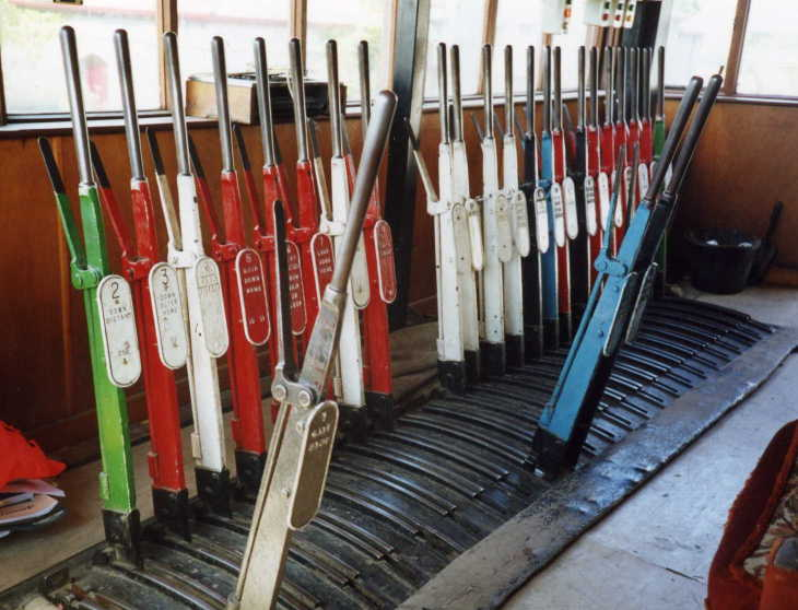 Scan of original photograph. Signalhead 22:42, 13 February 2007 (UTC)